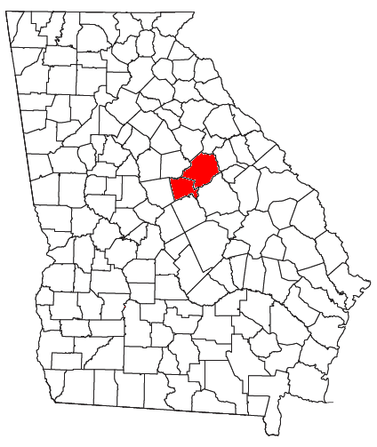 Locator map of the Milledgeville Micropolitan Statistical Area in the central part of the U.S. state of Georgia.